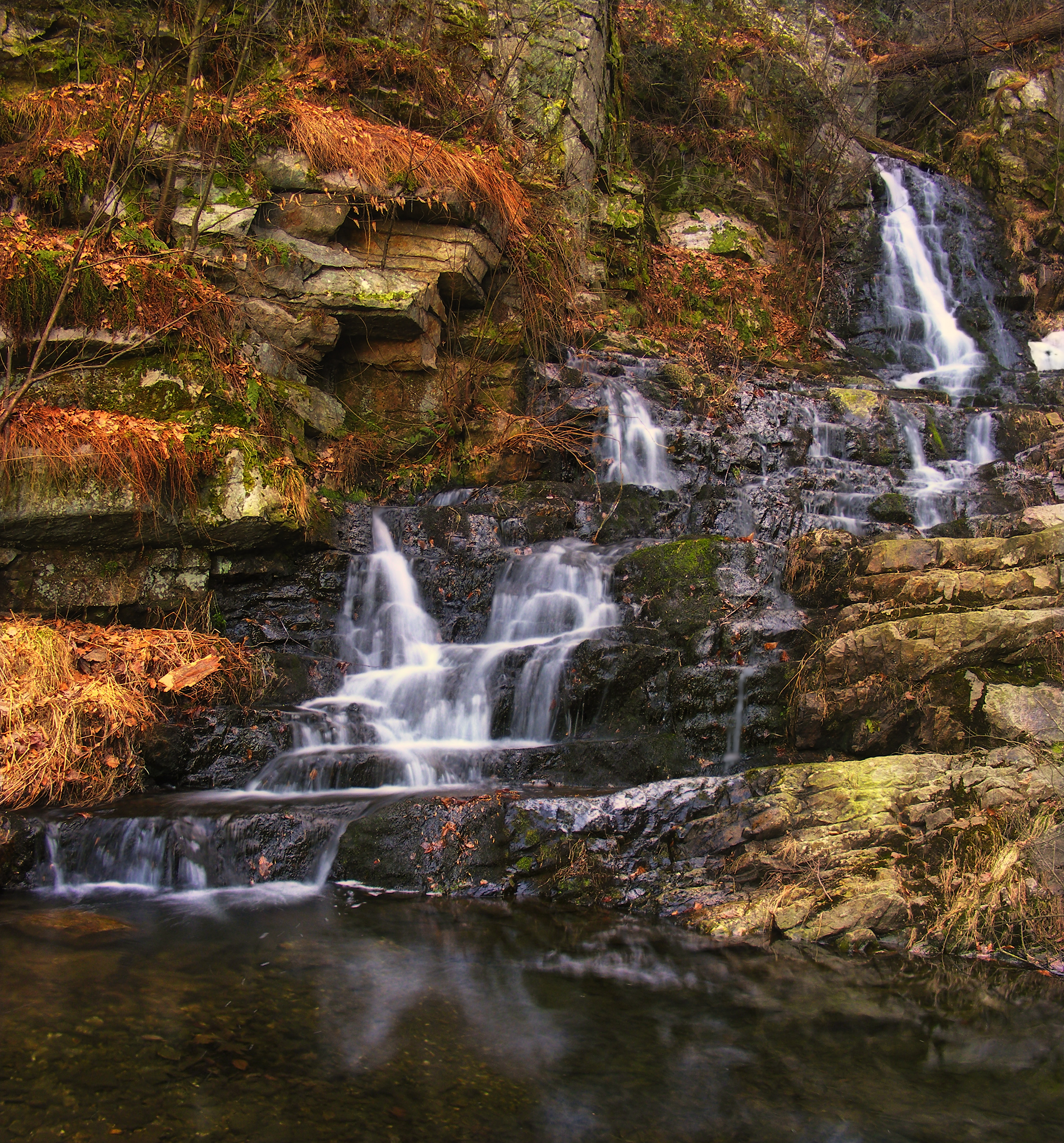 Wildcat Falls, York County, Pennsylvania Remote and difficult to find, the falls cascades 20 to 25 feet (6 to 8 meters) from the Susquehanna River cliffs north of Wrightsville. Note: Private property. Access is by permission only.